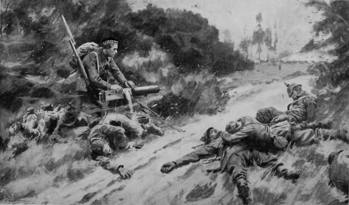 Artist's reconstruction of an event in the First Battle of the Aisne, in France in 1914. Private George Wilson VC (29 April 1886 – 22 April 1926) of the 2nd Battalion, The Highland Light Infantry, British Army, is pictured capturing an enemy machine gun, an action for which he was awarded the Victoria Cross. Original caption: PRIVATE GEORGE WILSON, HIGHLAND LIGHT INFANTRY. Awarded the V.C. for gallantry on September 14, 1914, near Verneuil. He attacked a hostile machine-gun, accompanied by only one man. When the latter was killed, he shot the officer and six men working on the gun, which he captured.